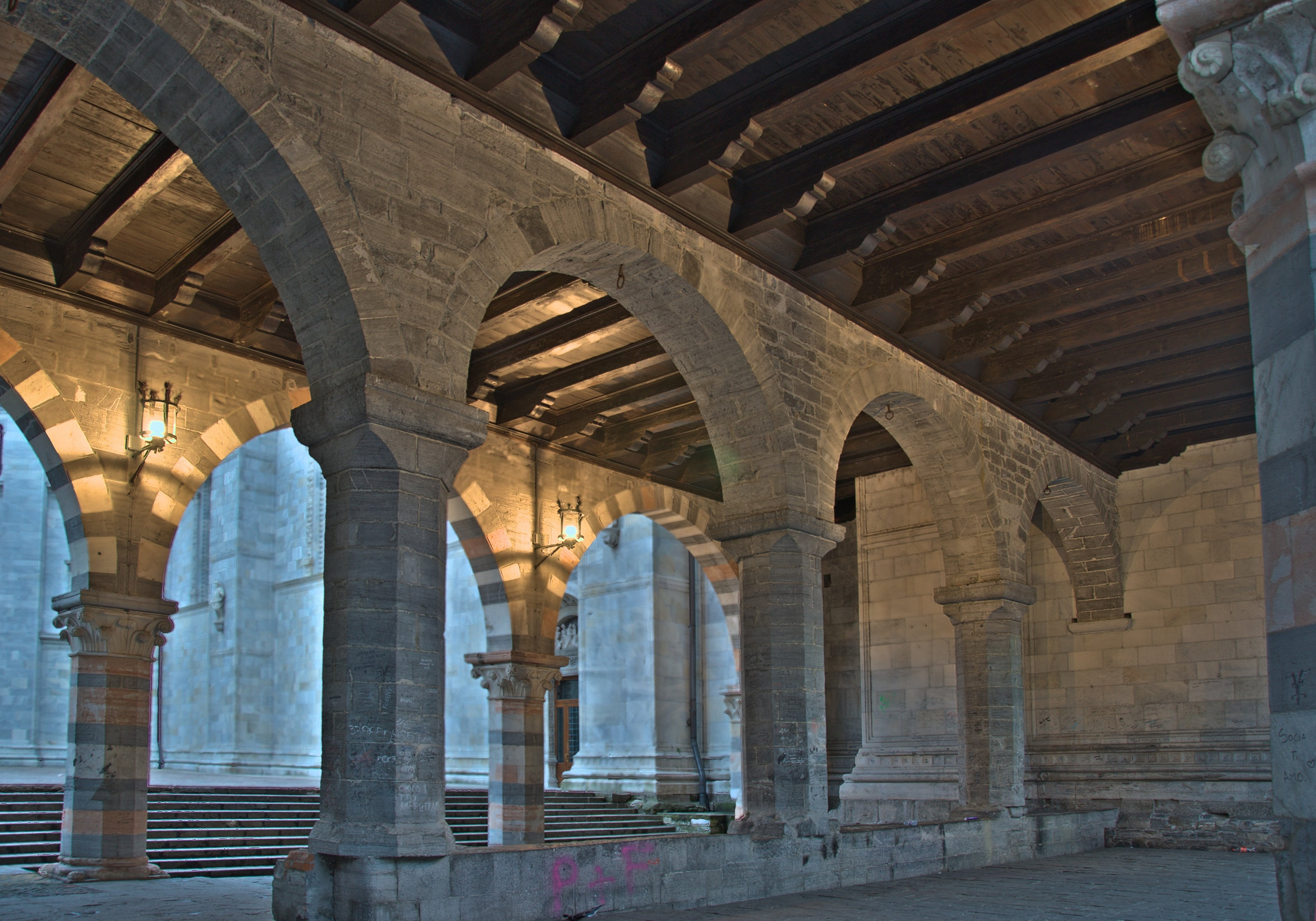 HDRI Ground level view of the Broletto in Como, Italy